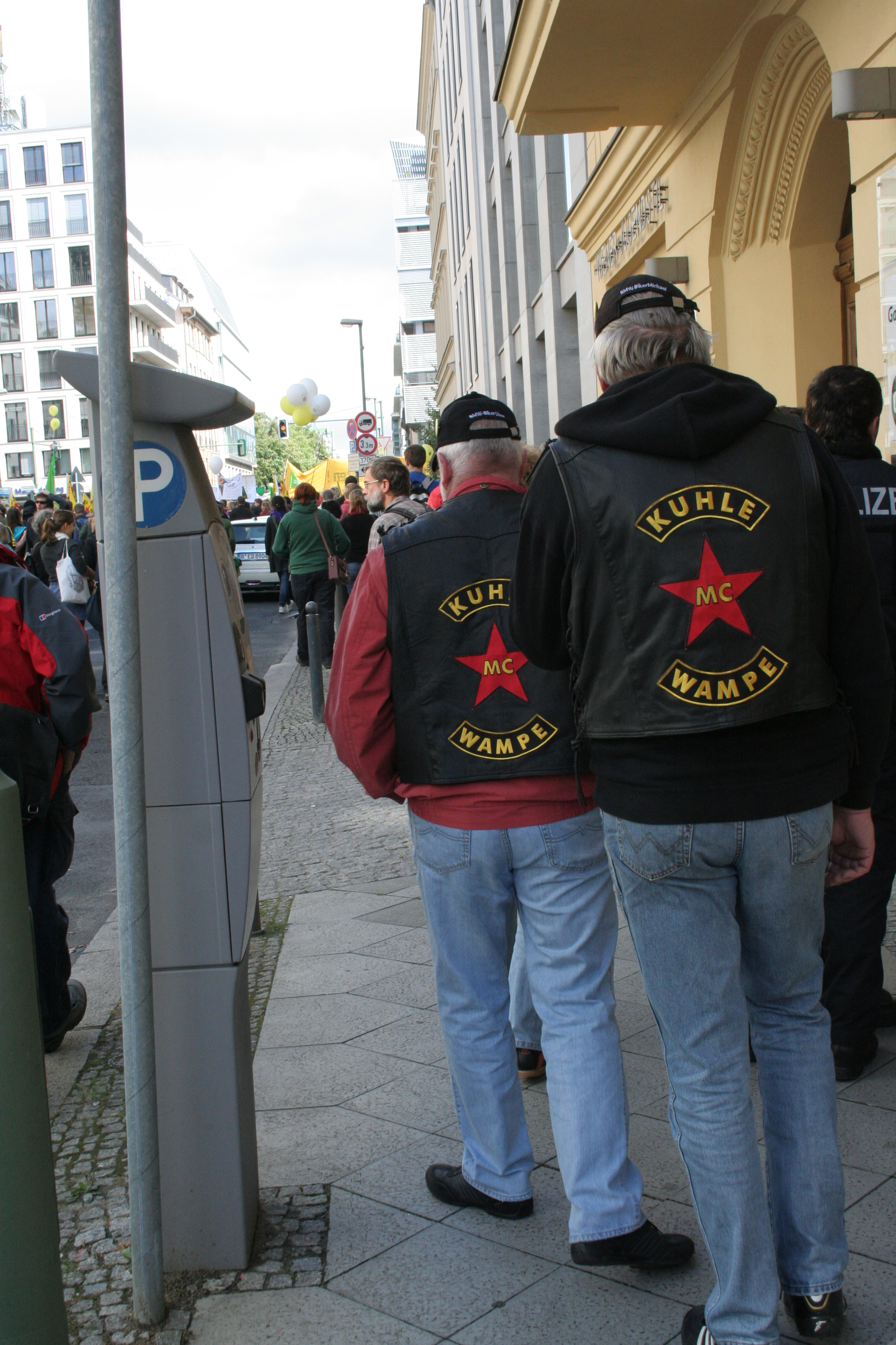 Members of the left-wing political MC Kuhle Wampe during a demonstration against nuclear power in Berlin, September 05, 2009